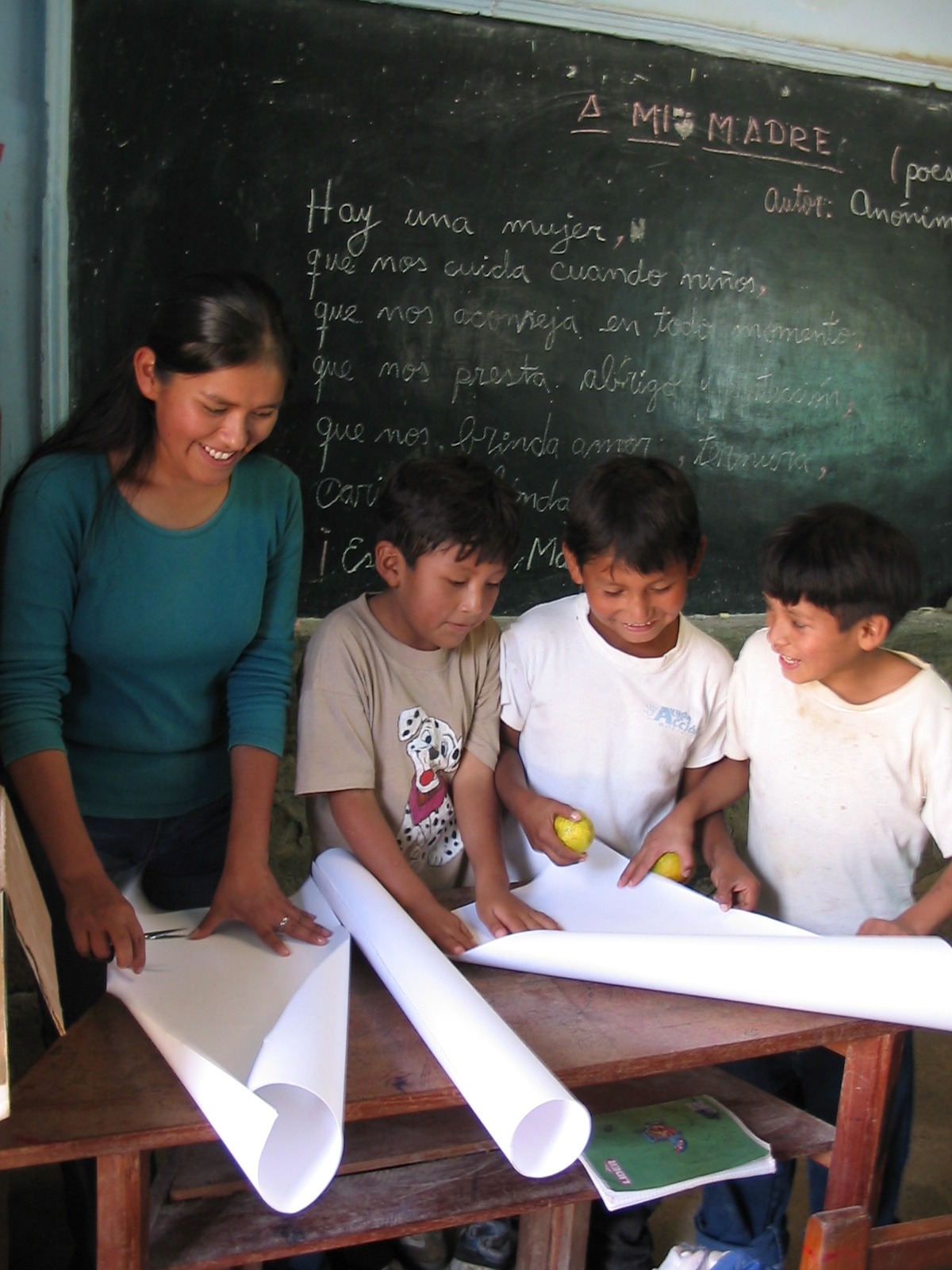 To gain teaching experience, a USAID scholarship recipient volunteers at a school near Carmen Pampa, in Bolivia’s Yungas region. Starting in 2004, USAID funded 50 scholarships per year as part of a larger development effort in the Yungas region, an area with widespread poverty and high levels of coca production. The program aims to reduce poverty and develop sustainable alternatives to growing coca.